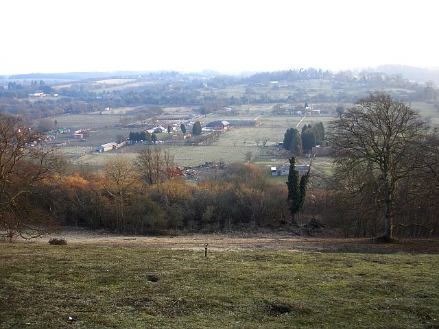 View from Queendown Warren. Looking south(ish) towards Yelsted. Queendown Warren is a steep escarpment maintained as a nature reserve. Most of this view is within the same grid square.